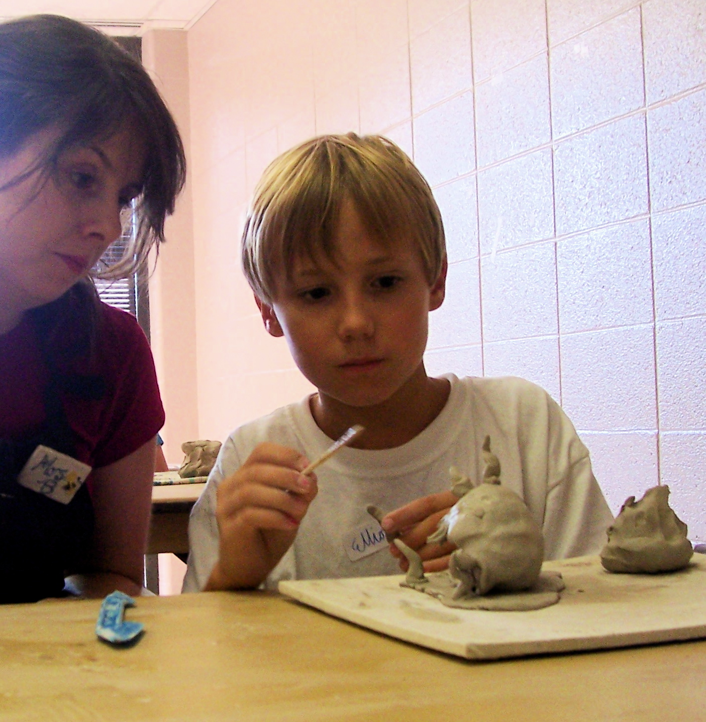 Pottery Class at Germantown Centre, administered by the City of Germantown (Tennessee) Department of Parks and Recreation. The teacher is Melissa Bridgman.